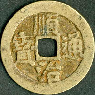 This is a photo of a coin of China, the coin was minted in the Shunzhi Era (1643–1661). According to the copyright law in China, it has been in public domain.